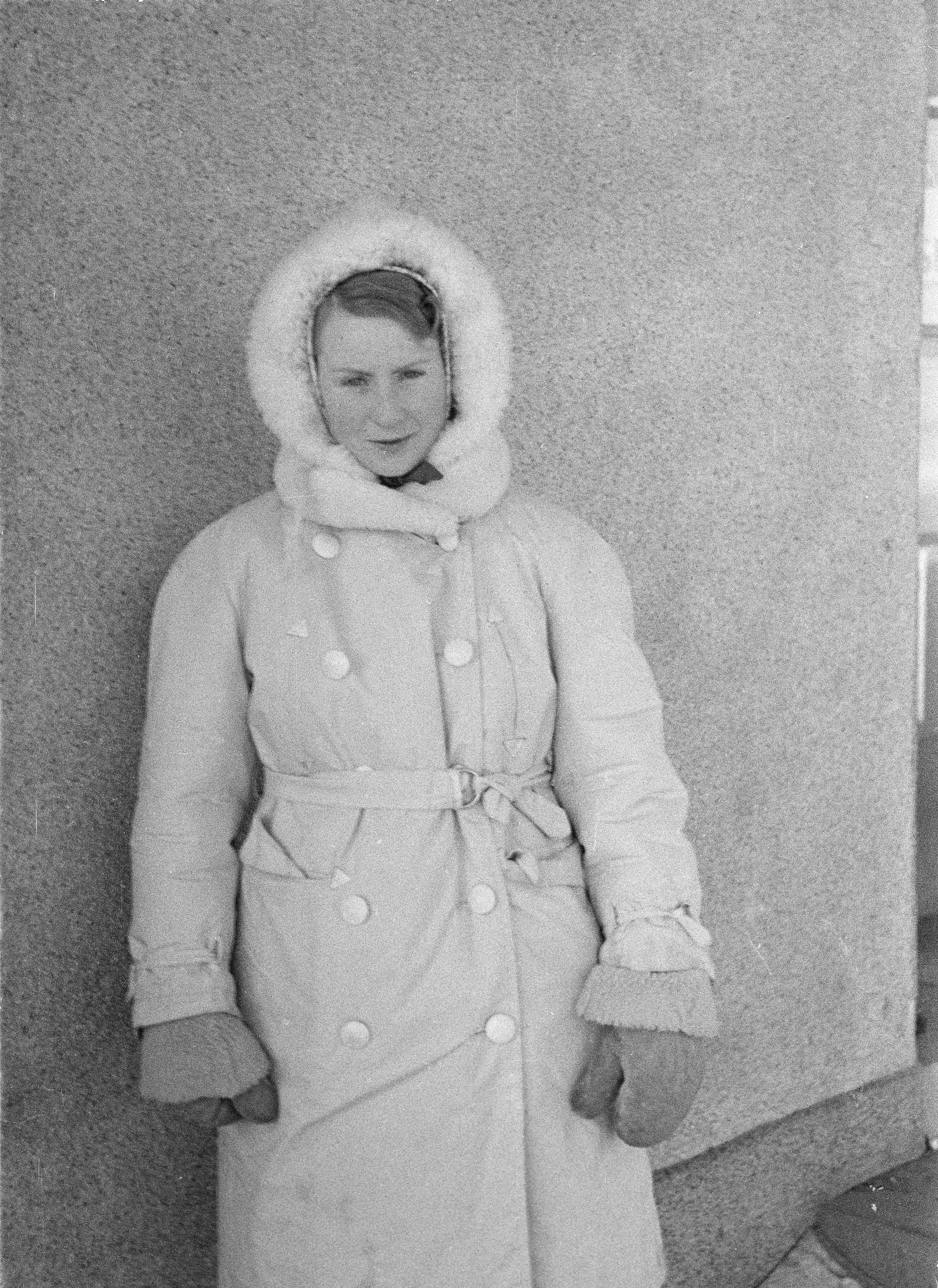 A female Danish volunteer physician during the Winter War.